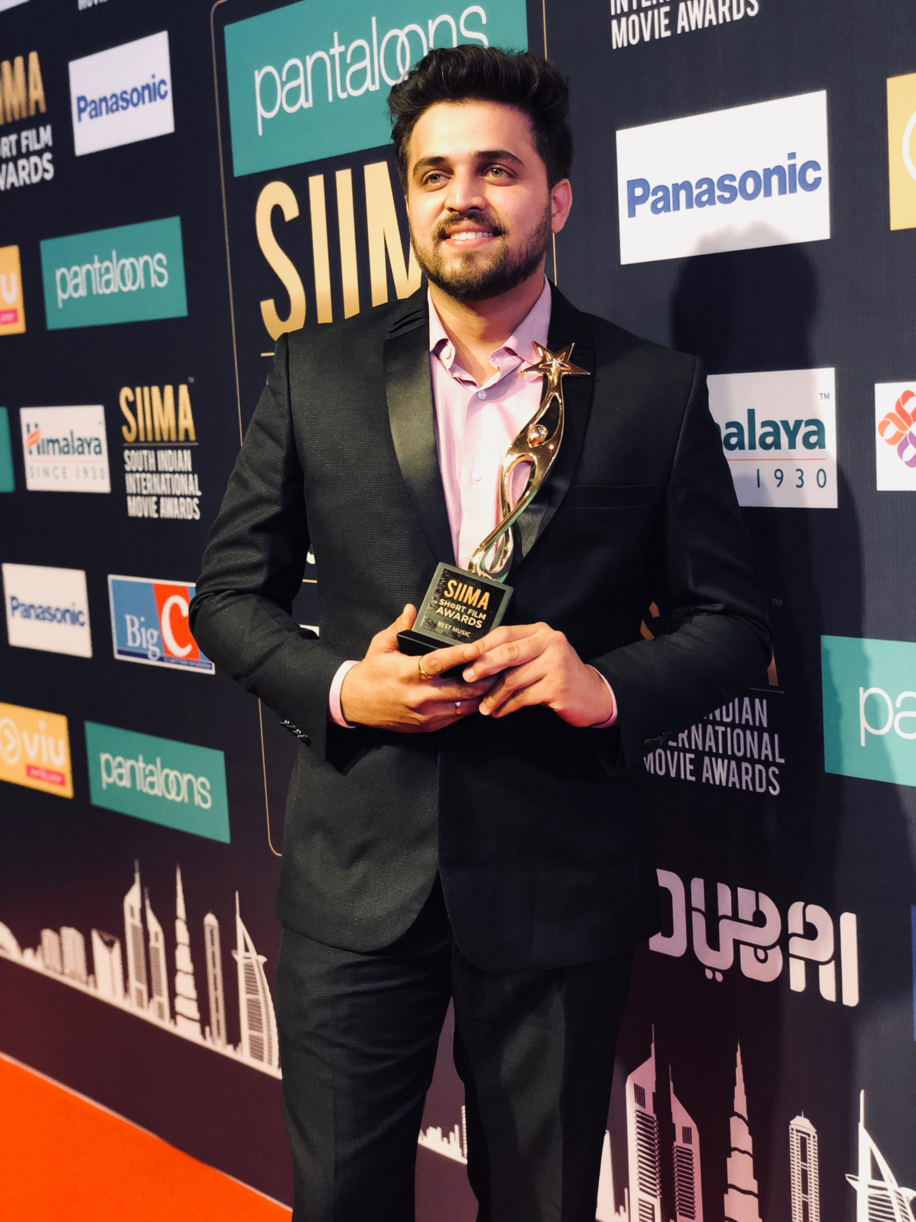 Picture after Nakul Abhyankar won Best Music Director Award at South Indian International Movie Awards 2018 for the short movie, Rishabh Priya.